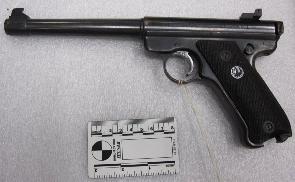 Accession: 68-577-B Pistol, Cal 22, US, Ruger Mk1 Pistol has serial# 153616, left frame is engraved: " Ruger" " .22 Cal Long Rifle Automatic Pistol." Right frame has, " Sturm, Ruger & Co/Southport, Conn, U.S.A." Collection of Curator Branch, Naval History and Heritage Command.